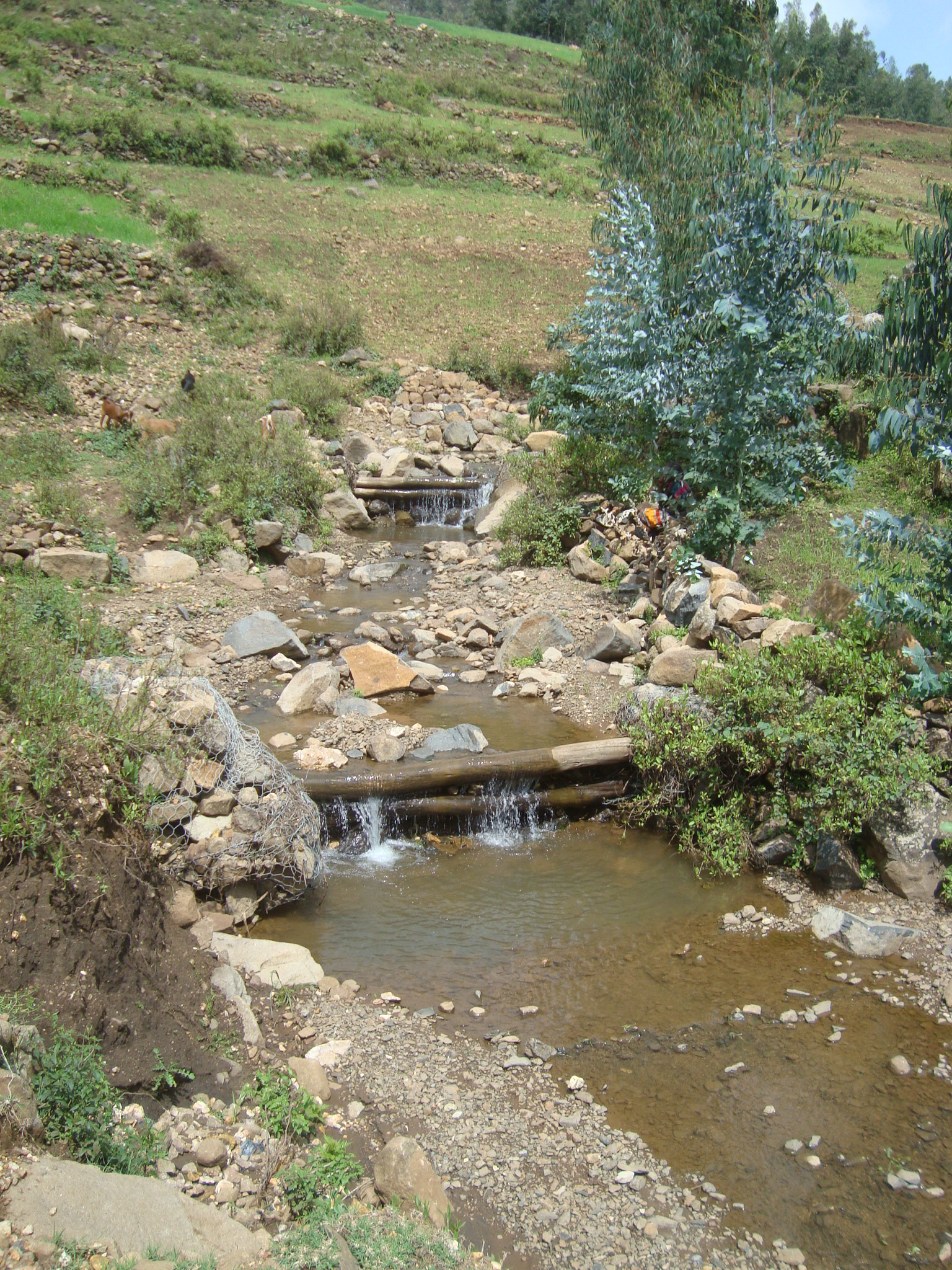 Arwadito with logdams